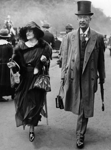 George Herbert, 5th Earl of Carnarvon (1866-1923)